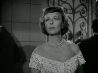 Cropped screenshot of Margaret Sullavan from the trailer for the film No Sad Songs for Me